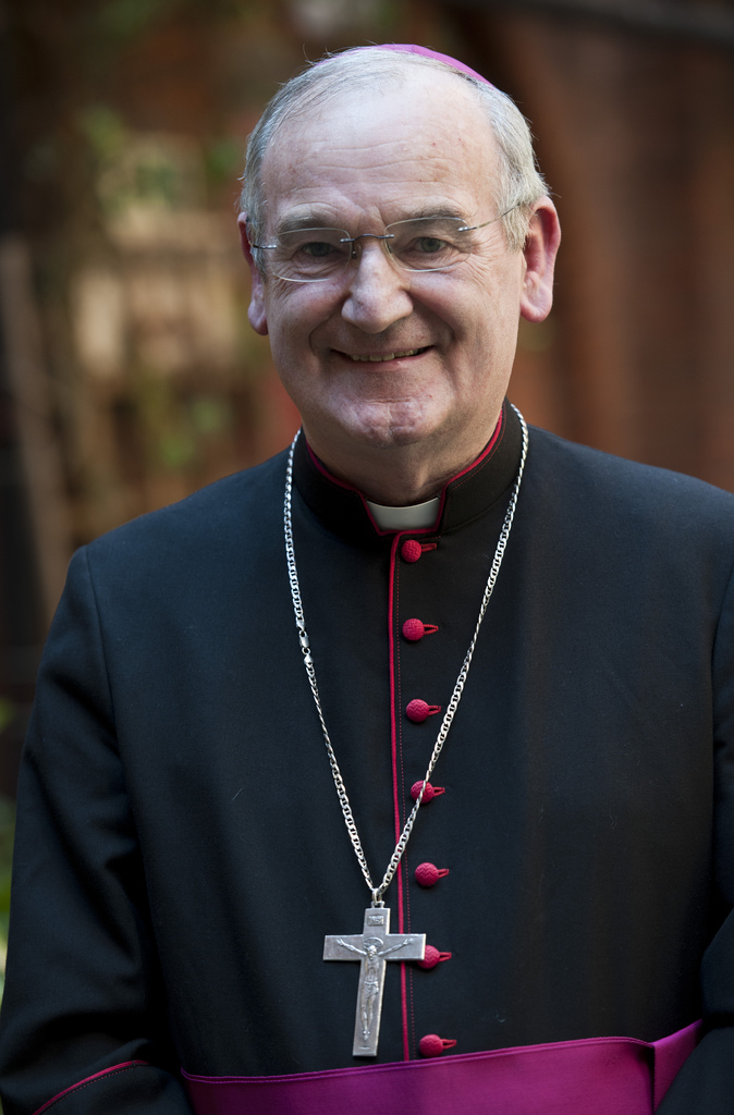 Bishop George Stack was Auxiliary Bishop in Westminster from 2001 until 2011, and was in 2011 appointed Archbishop of Cardiff